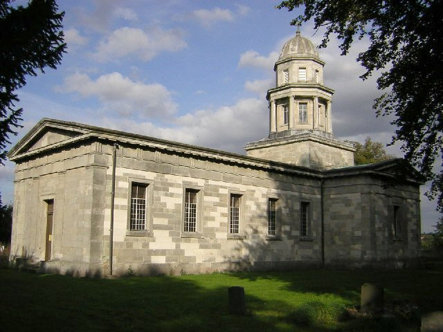 Milton Mausoleum. Mausoleum to the Duchess of newcastle from the south west